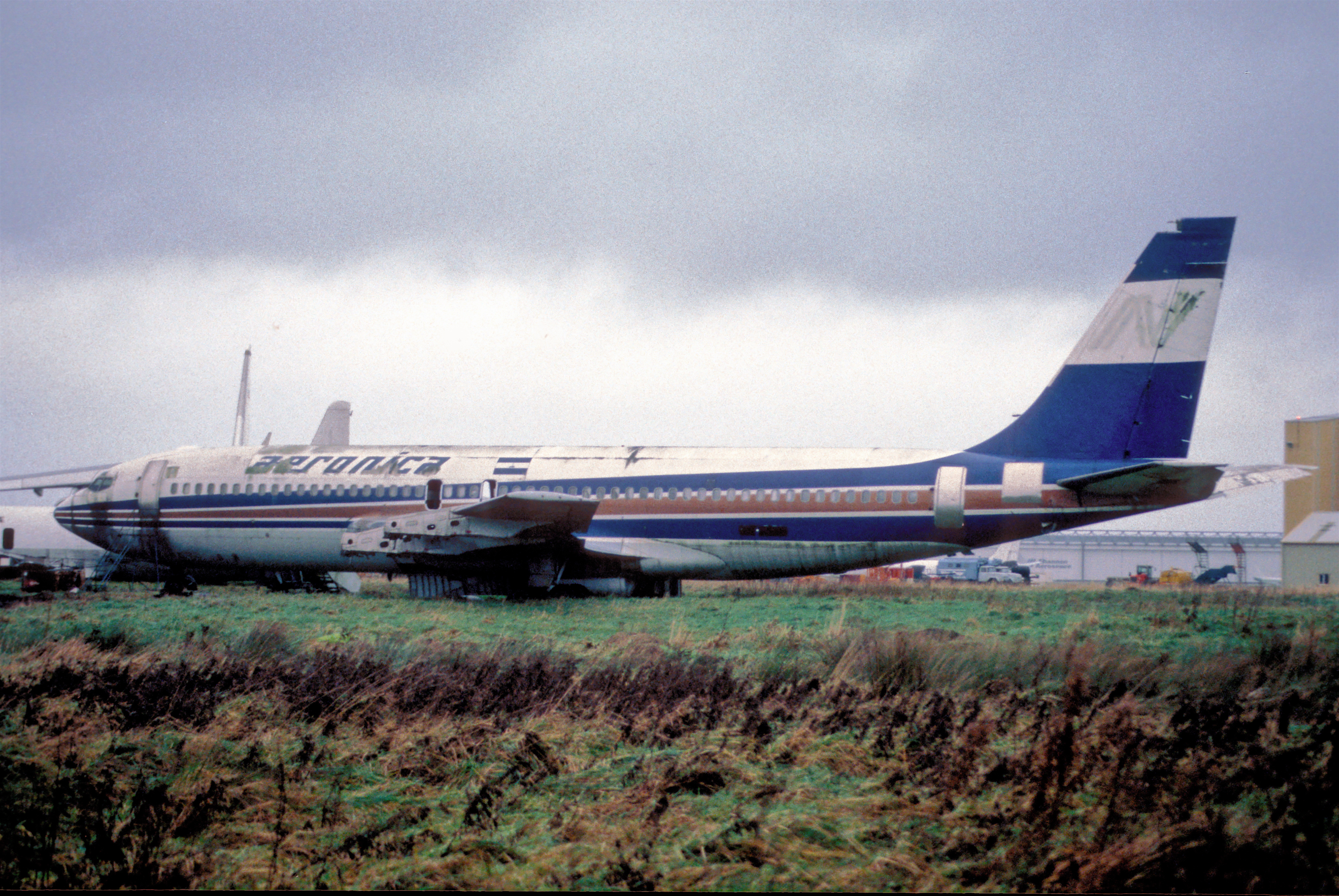 119aa - Aeronica Boeing 707-123B; YN-CCN@SNN;31.12.2000